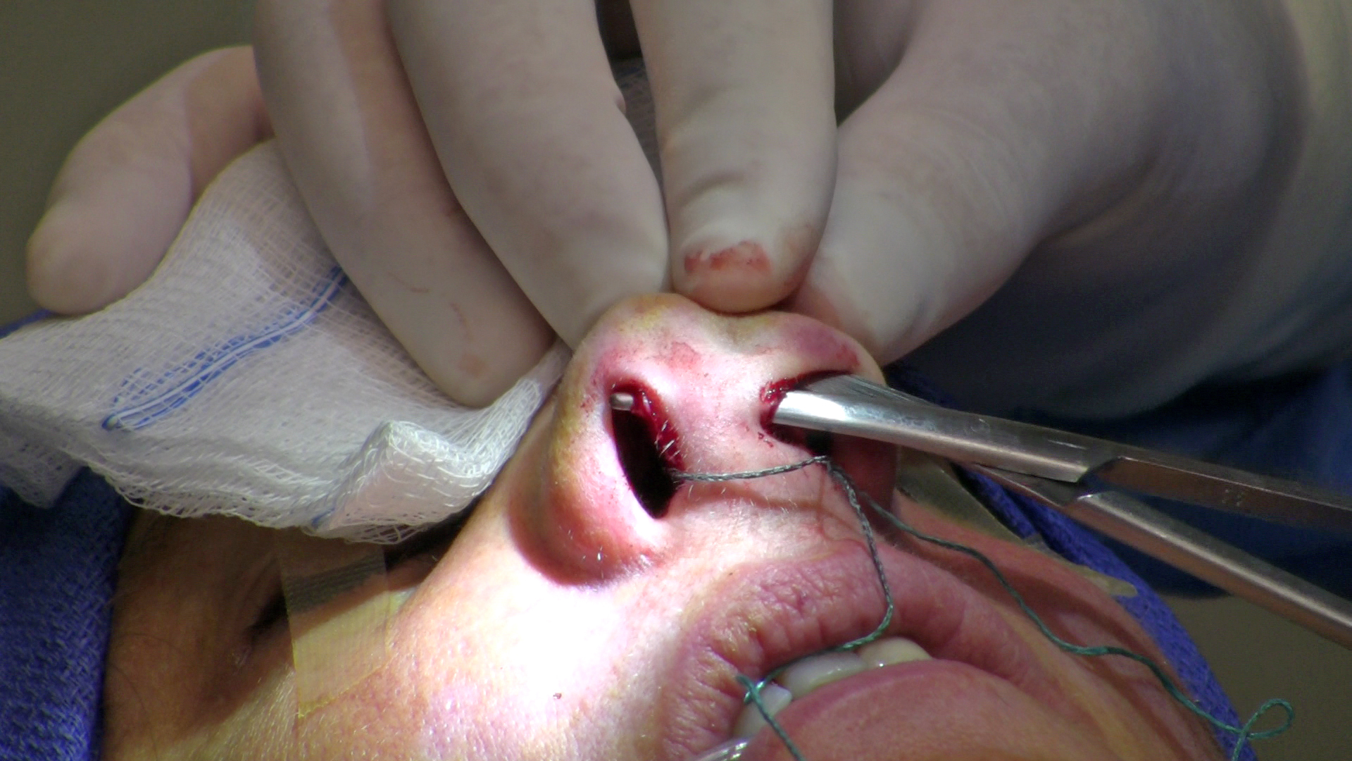 During rhinoplasty, the surgeon is creating space above the septum and between the nostrils in order to access parts of the nose.